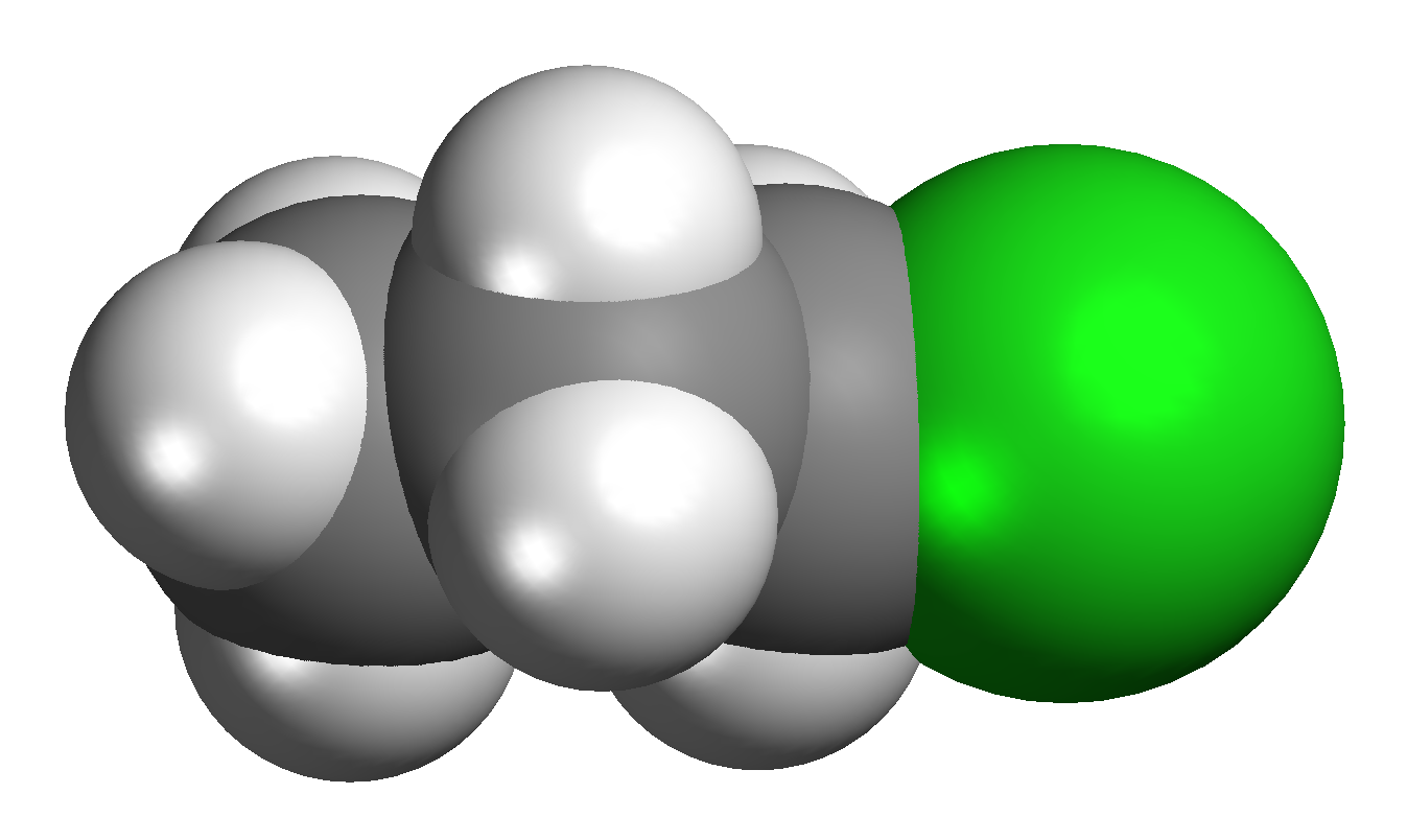 3D diagram of n-propyl chloride molecule. Prepared using Discovery Studio Visualizer 1.7 and GIMP 2.2